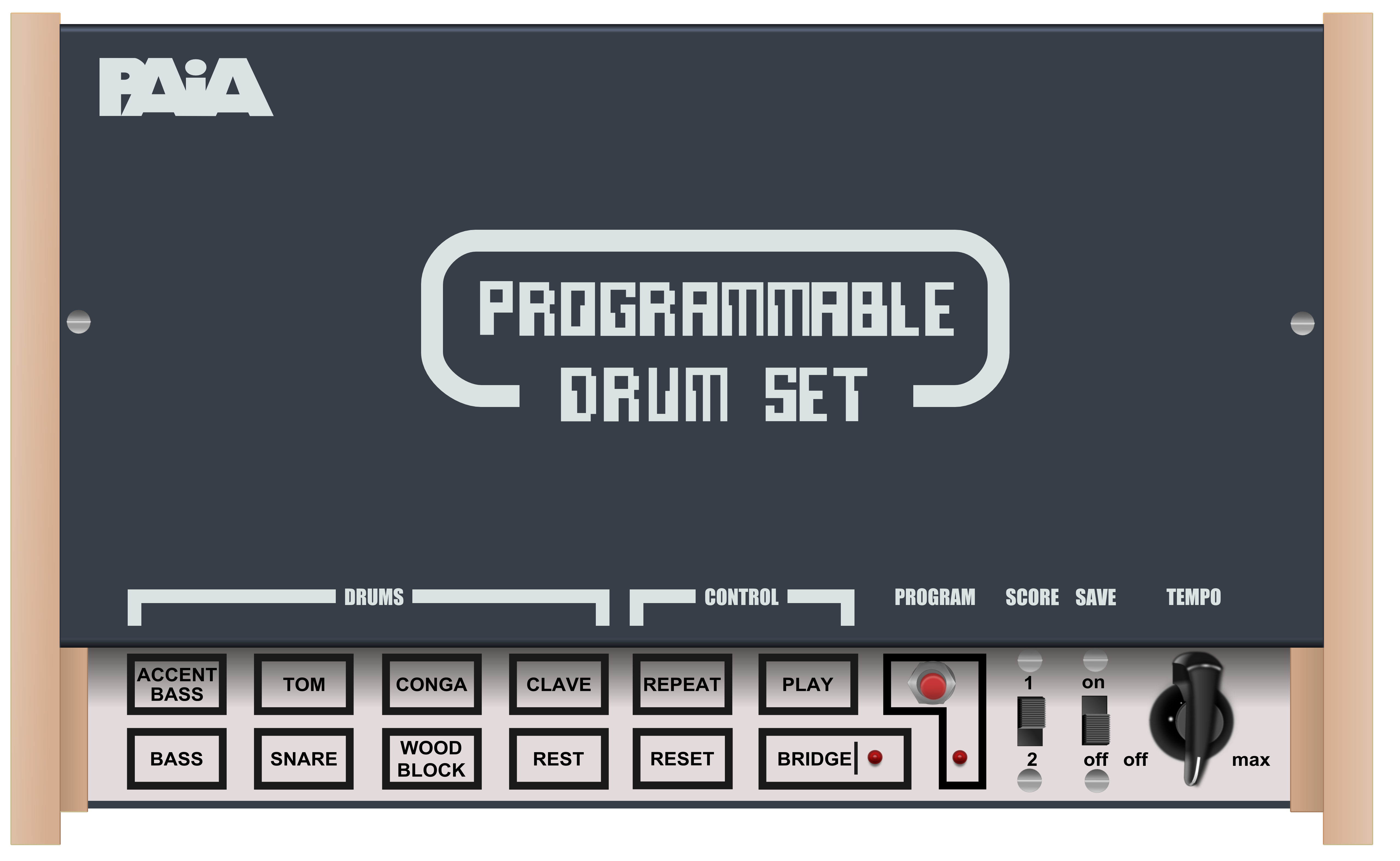 PAiA Programmable Drum Set (1975) Fonts in use on File:PAiA Programmable Drum Set (1975).svg: Brand logo: (hand drawn) Product logo: Computer Font (TrueType, bitmap, free) (1994-09-07).; instead of: David Moore Typehouse (1968). Computer [Moore Computer] (monotype). Visual Graphics Corporation., an alphabetic extension to: E 13 B (MICR). Adobe / Linotype / Bitstream; originally published by Stanford Research Institute and General Electric Computer Laboratory (1950s date QS:P,+1950-00-00T00:00:00Z/8). Others: MS Serif (TrueType), Microsoft, 2009-07-14; instead of unknown font.